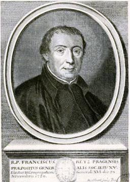 Franz Retz, S.J.